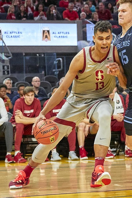 Stanford University Cardinals versus University of San Diego Torendos , Mens Basketball, Chase Center, San Francisco, 2019 Al Attles Classic, Basketball Hall of Fame , CA